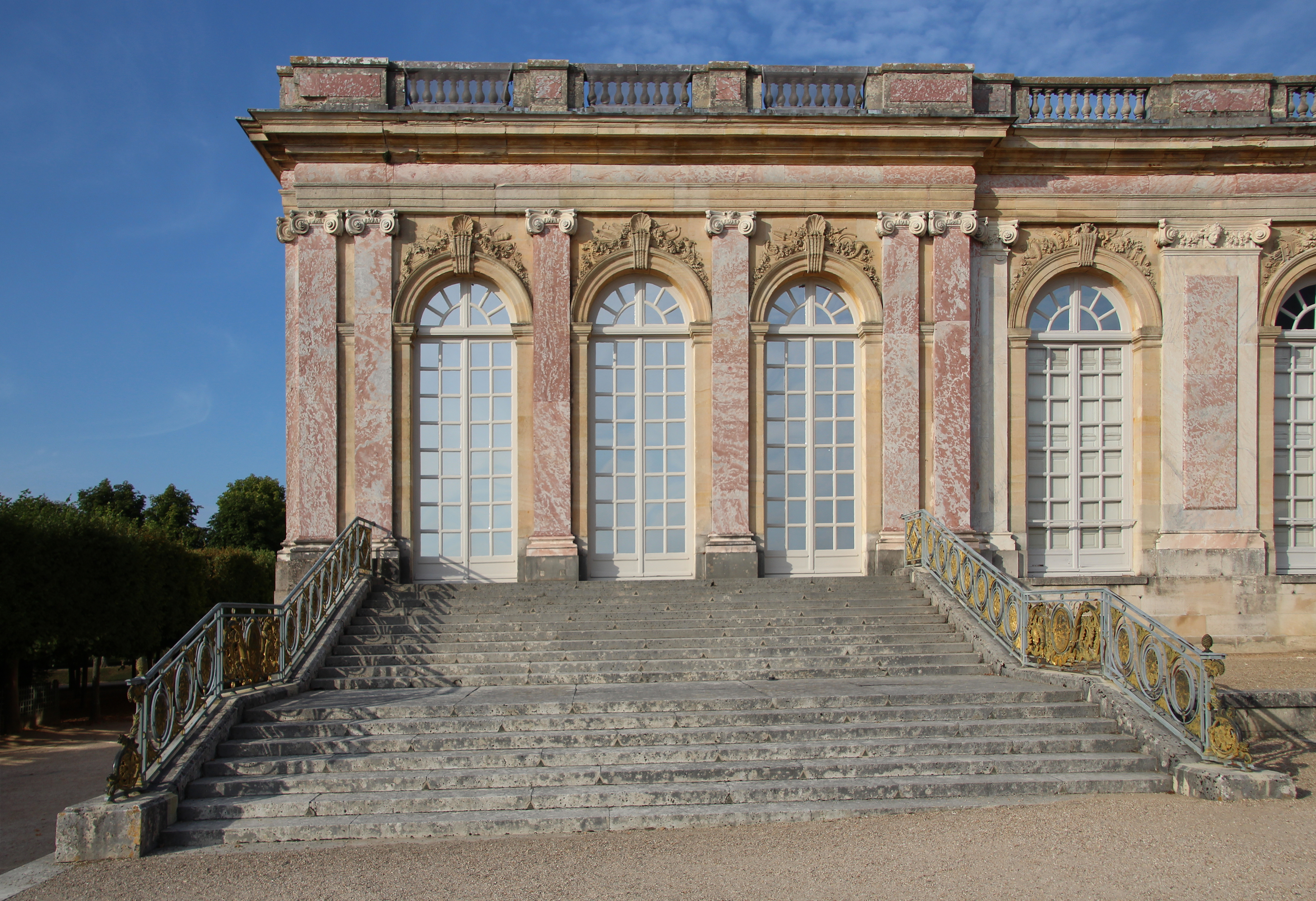 Grand Trianon in the Domain of Versailles, France